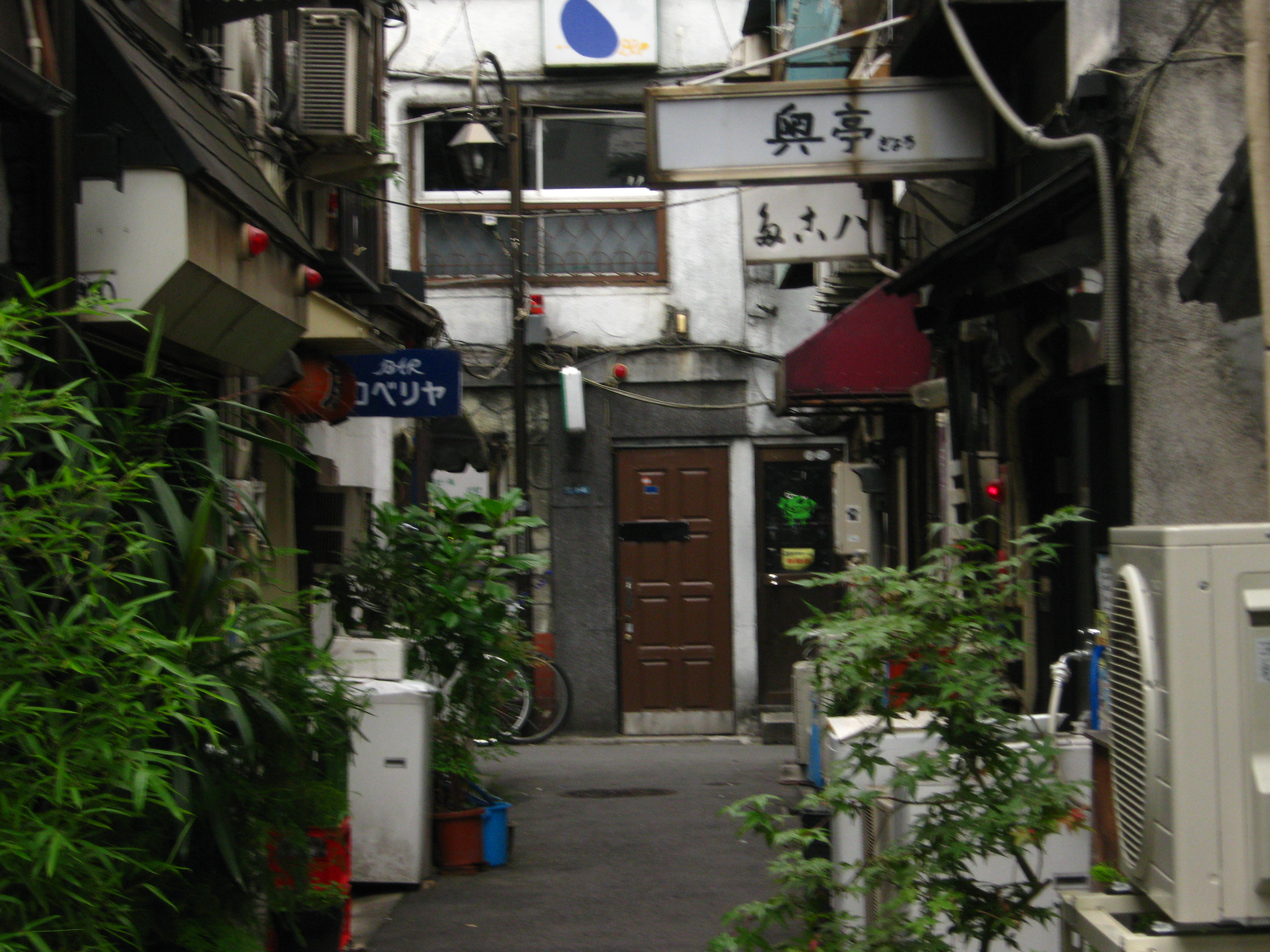 Akarui Hanazono Goban Street is located in Shinjuku Ward, Tōkyō Metropolis.